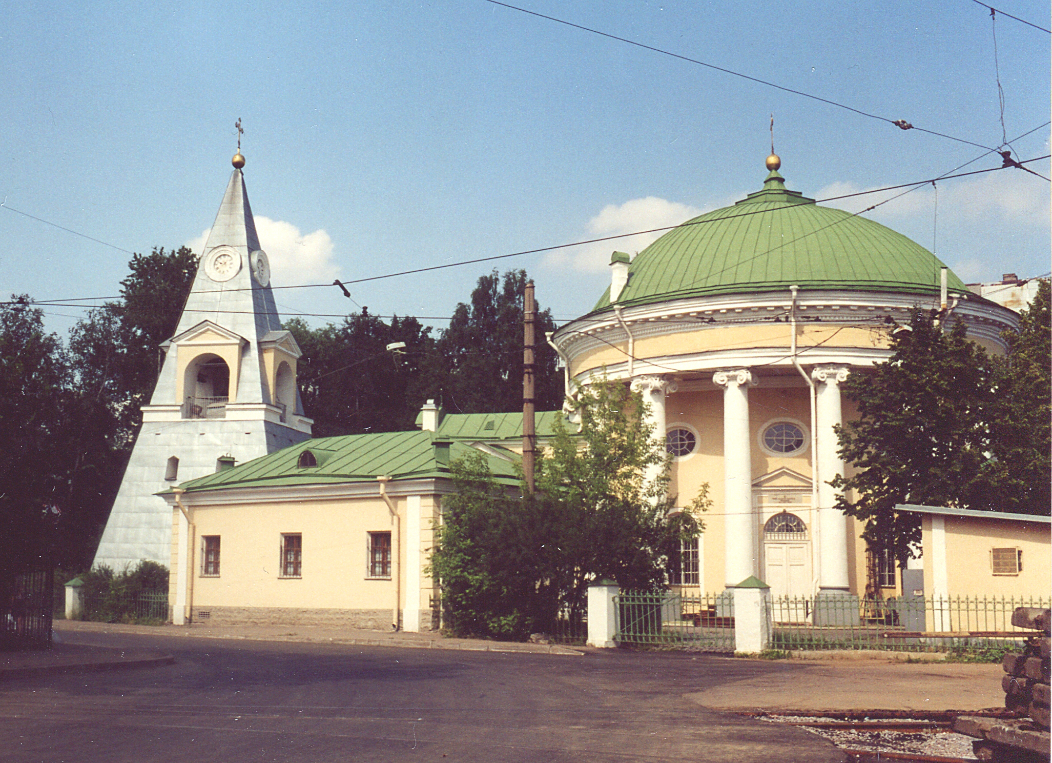 Saint Petersburg (Russia), Troitskaya church